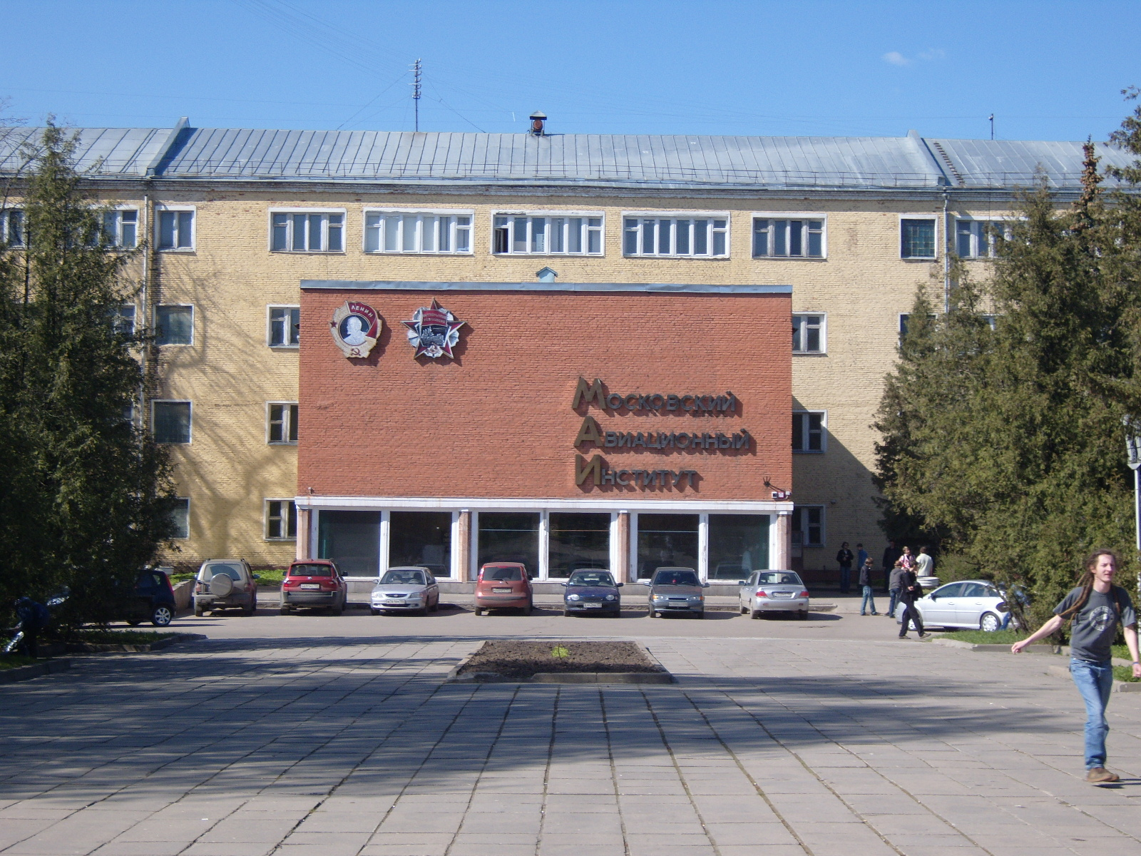 Building № 3 in Moscow Aviation Institute